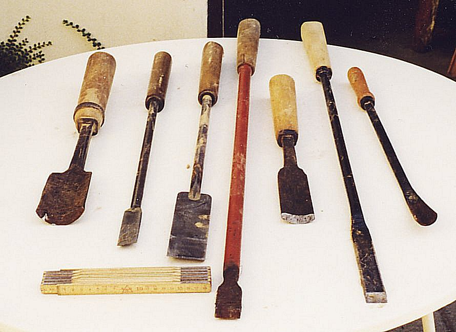 Custum-made tools to build (classical) water and wind mills. Used by a mill builder on Stevns, Denmark